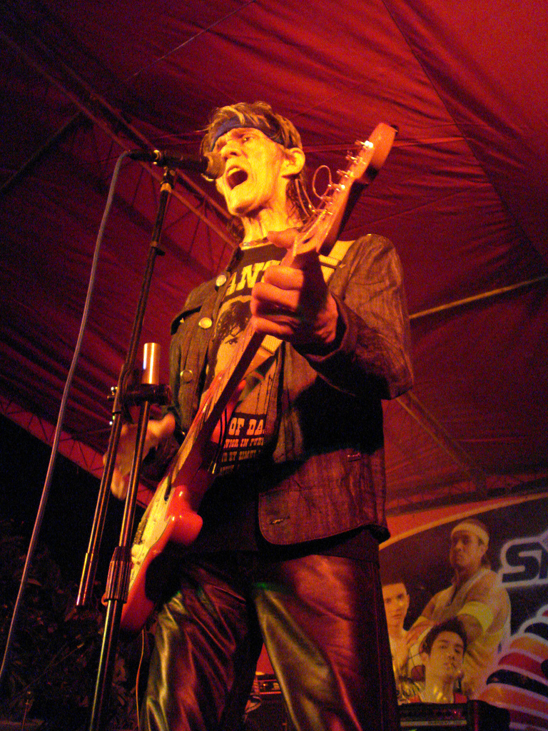 Filipino musician Pepe Smith, Philippine Rock n Roll Legend